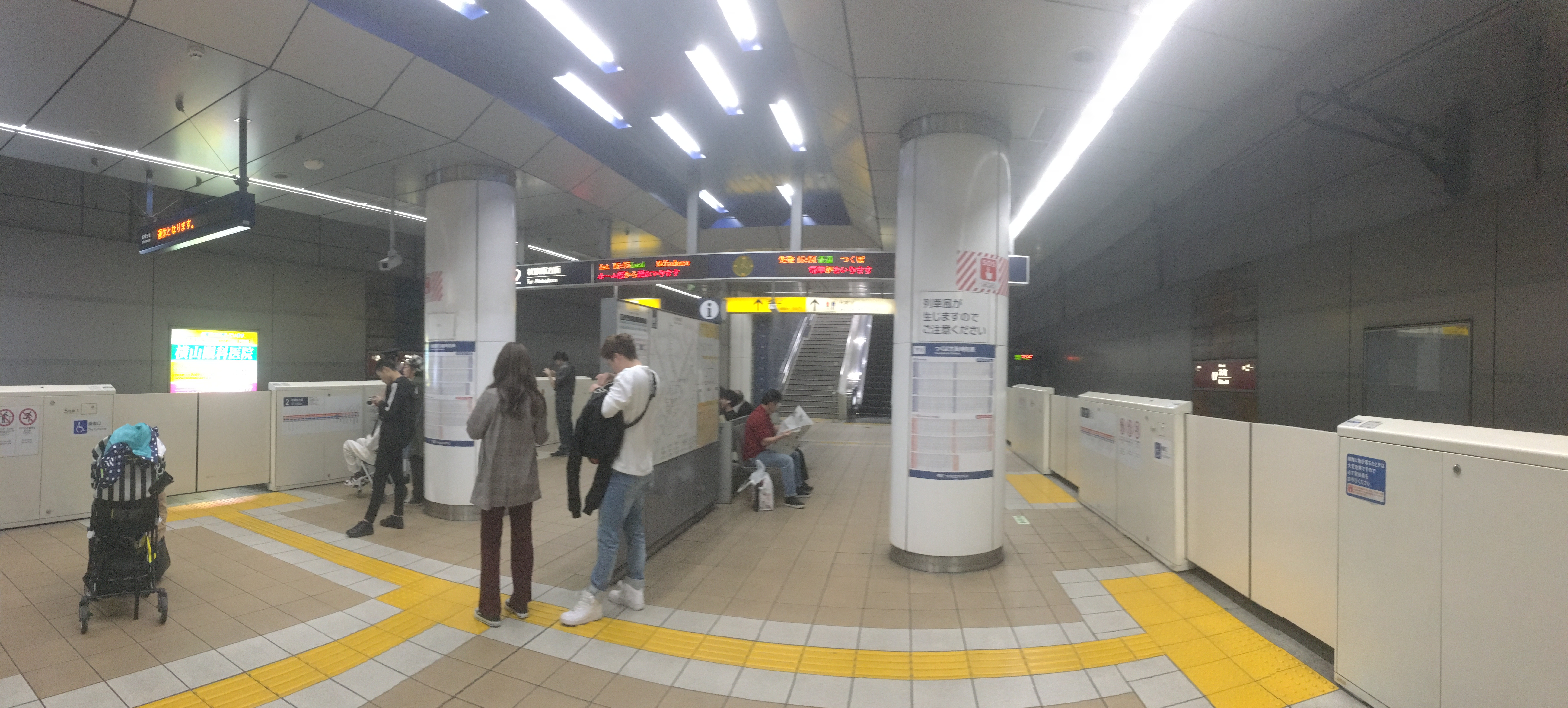 TX六町駅 (TX Rokuchō Station)